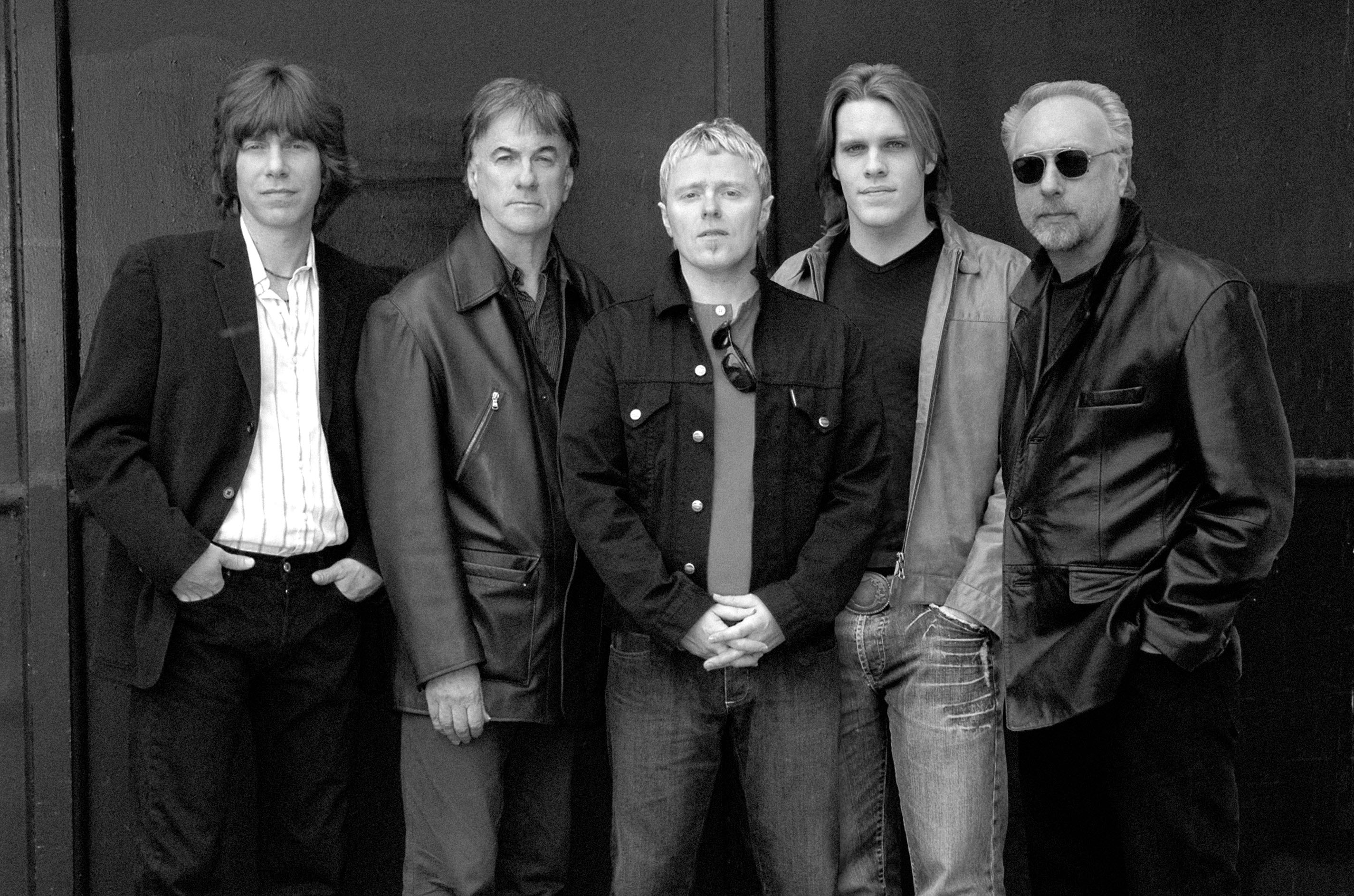 Yardbirds Pocahontas Live concert. zar